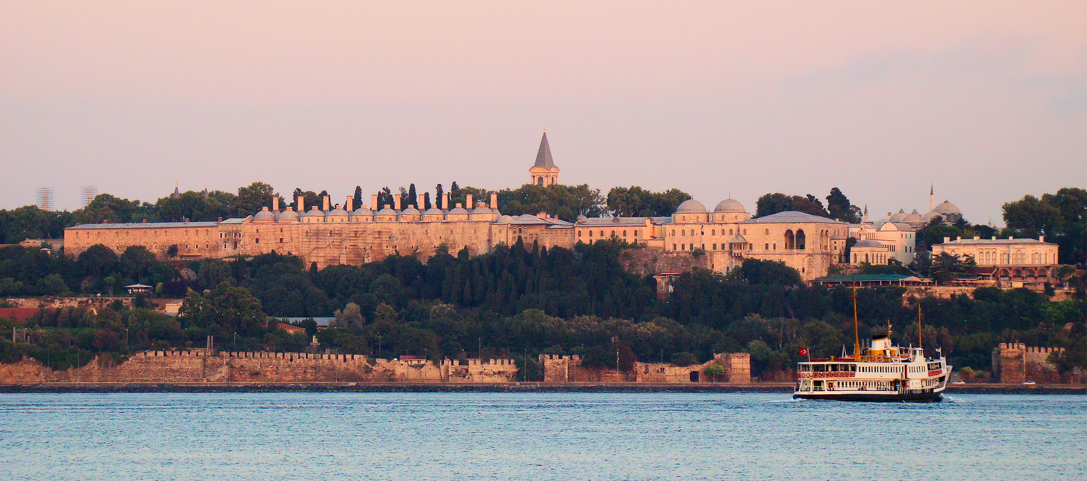 The Topkapı Palace, Seraglio Point (Sarayburnu), and the Golden Horn at sunrise, photographed from across the Bosphorus at the Harem ferry terminal in Turkey. The many chimneys on the left side of the photo belong to the Palace Kitchens. At the right end of the complex there's the Mecidiye Kösku, The Grand Kiosk, a late Ottoman era pleasure pavillion from the 19th century, from where there's an unobstructed view towards the Bosphorus Bridge. Down by the water near Gülhane Park the original city wall remains, with the railway lines to the Sirkeci Railway Station on the inside and a major road and a promenade on the outside.